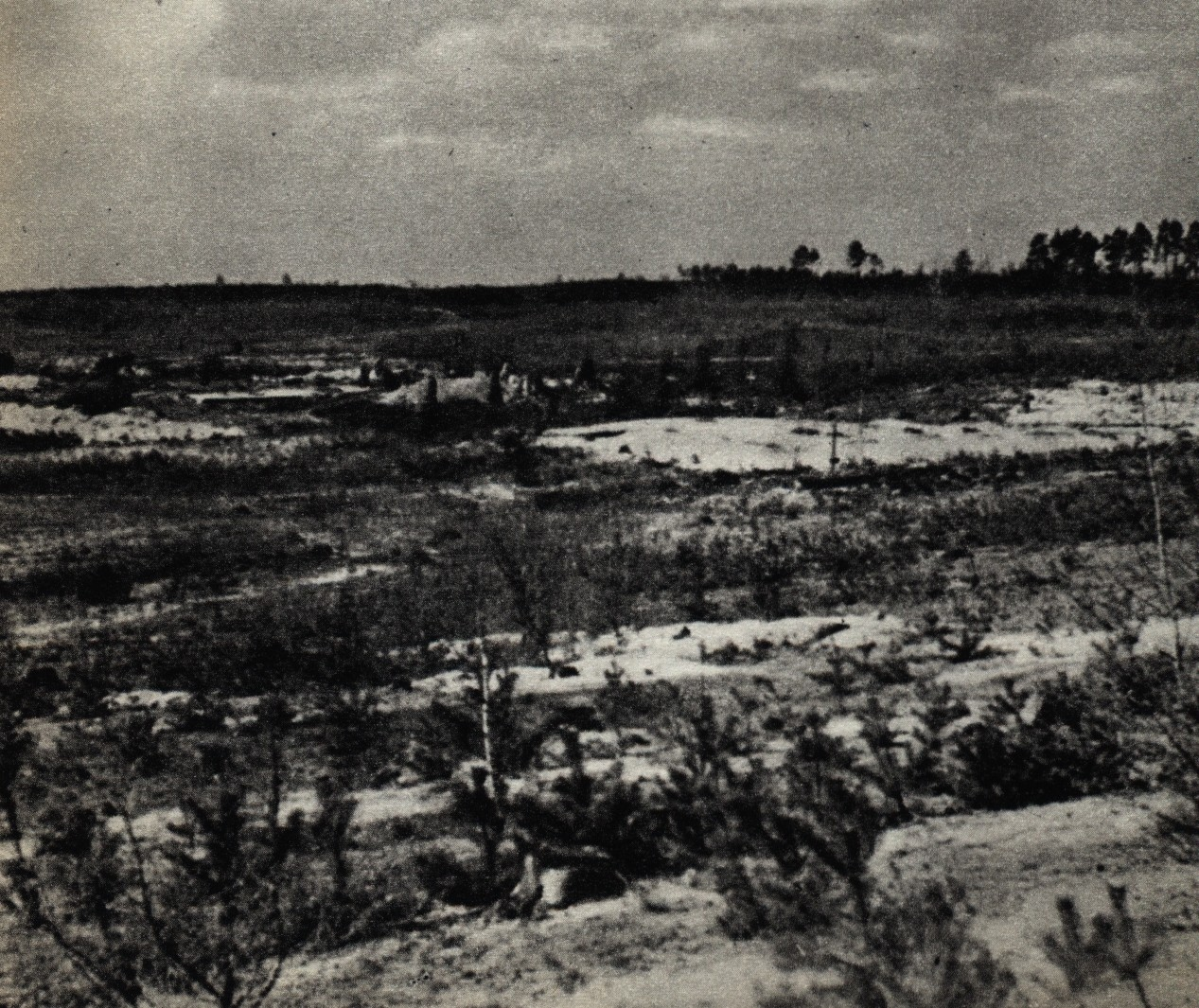 “Glade of death” near the village of Palmiry in the Kampinos Forest, located northwest of Warsaw, where approx. 1700 Poles and Jews were killed by Nazi-German occupants in 1939–1941. This is a post-war photography.